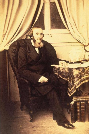 Portrait of Frédéric Charles Jean Gingins de la Sarraz